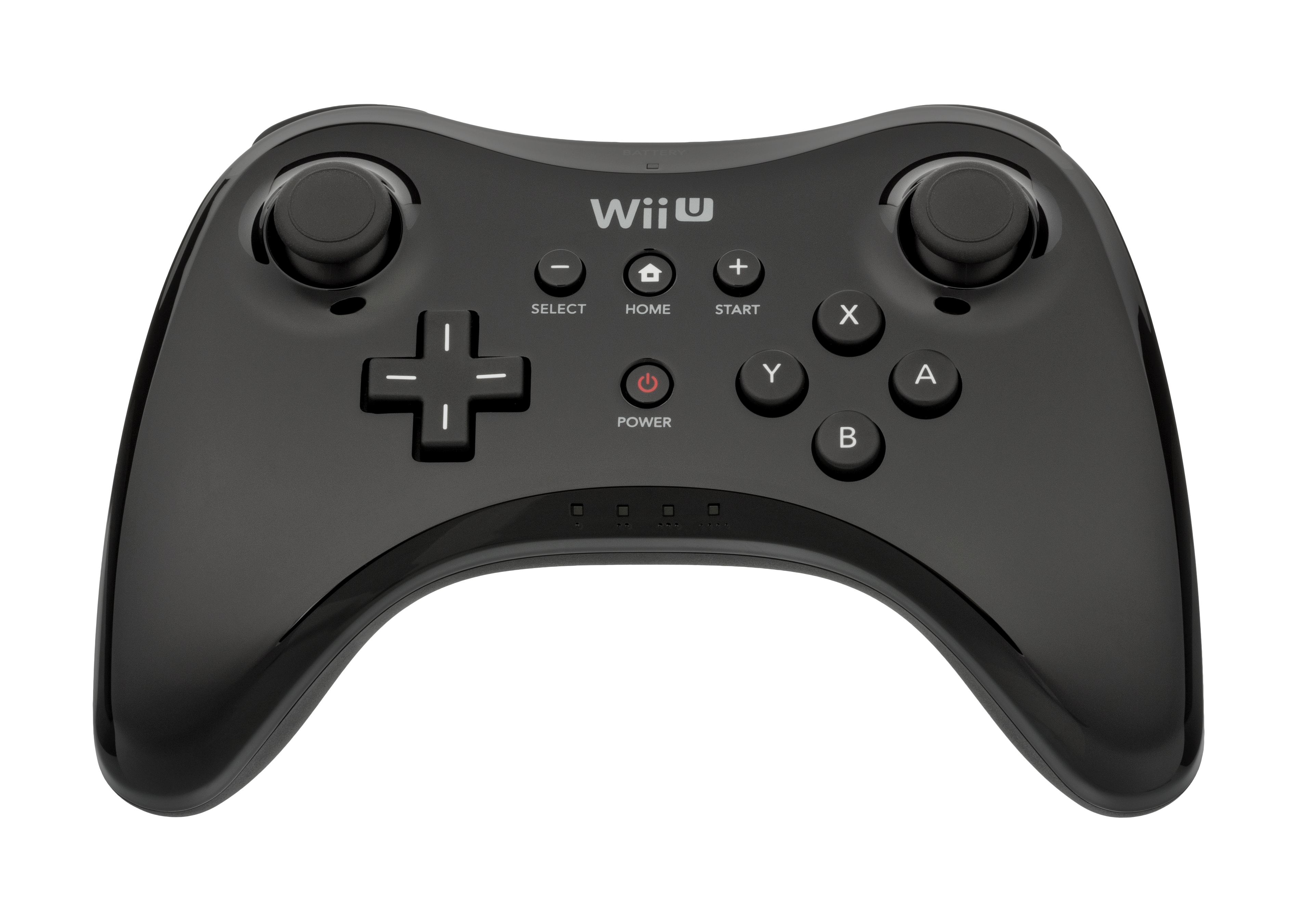 The Pro Controller for the Wii U, an eight generation video game console from Nintendo that was released in 2012. This optional controller is based on a more traditional design as compared to the Wii U's pack-in tablet controller.